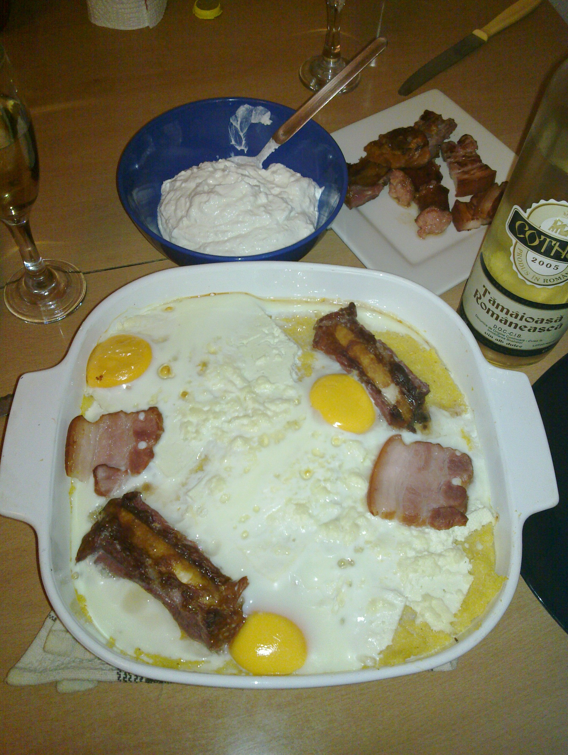 Bulz ciobănesc. Traditional Romanian dish with mămăligă.